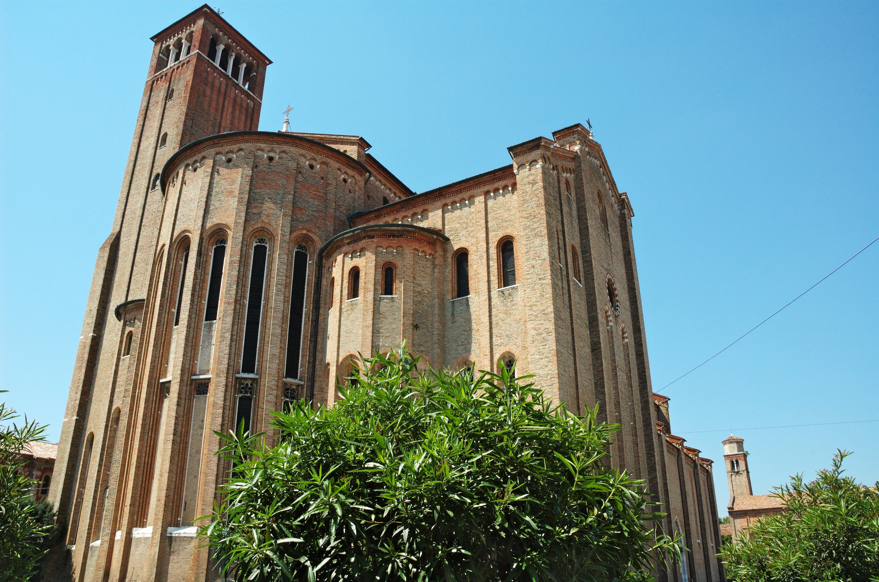 Chiesa di San Nicolò, Treviso.